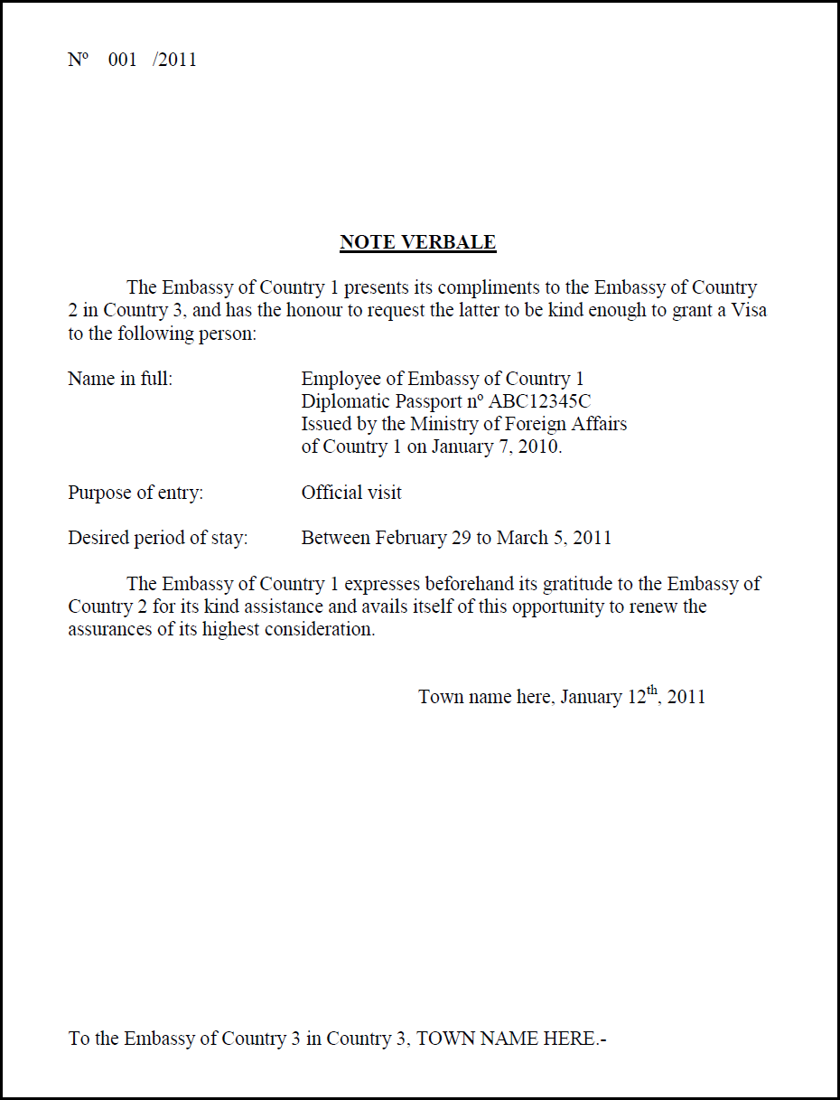 Template model for a Note Verbale. Created by Jair Moreno on January 12th 2011.